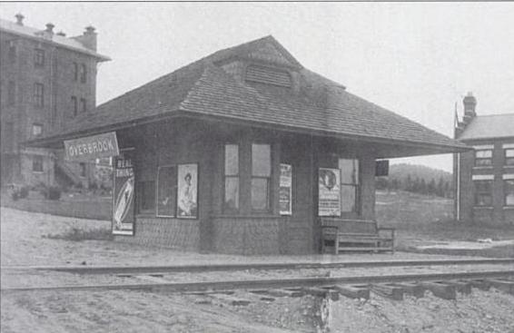 The former Overbrook Station on the Erie Railroad's Caldwell Branch in Cedar Grove, New Jersey. The station is photographed with the Overbrook Hospital visible.